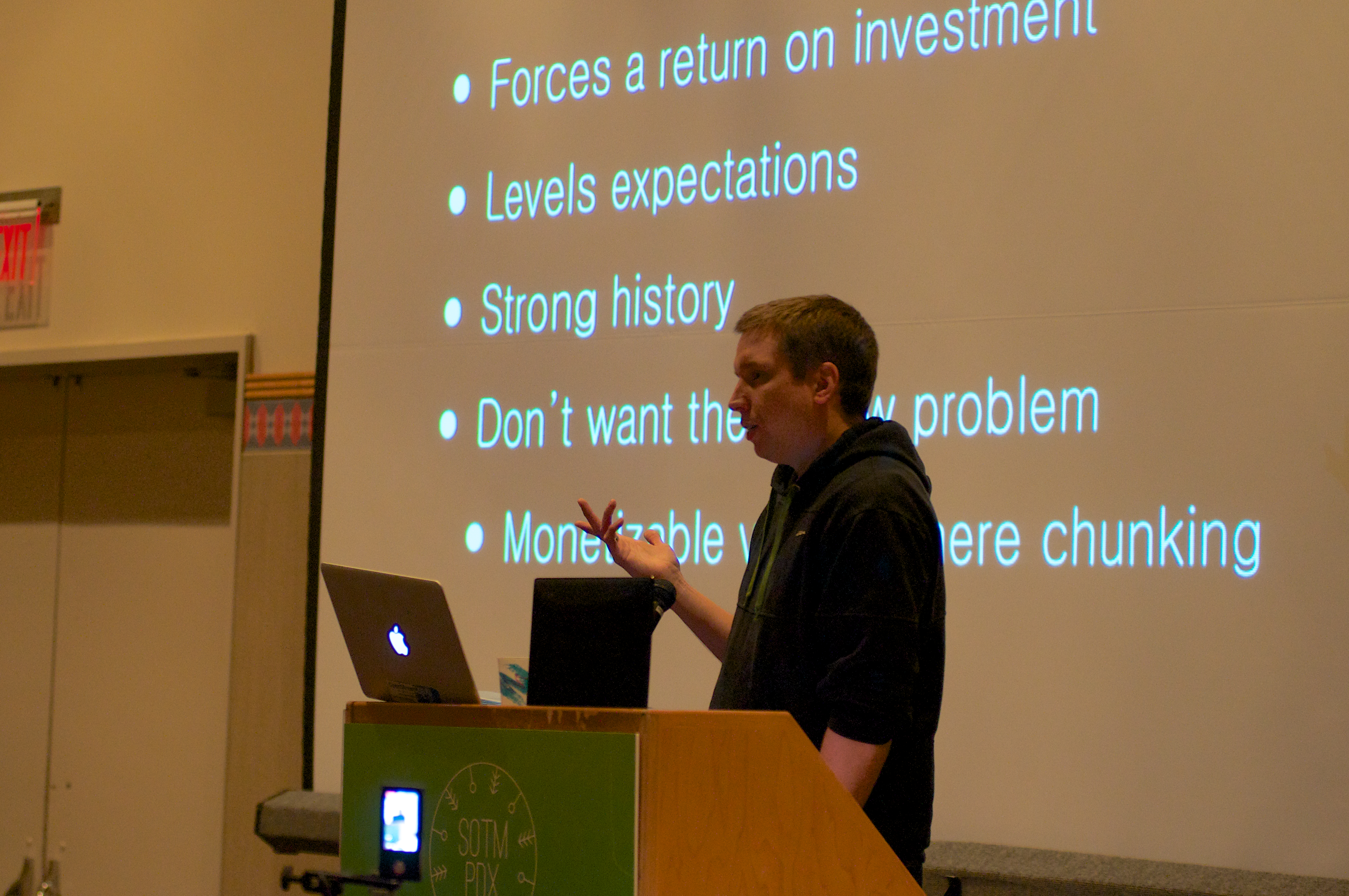 Steve Coast, founder of OpenStreetMap, addresses the conference State of the Map US 2012